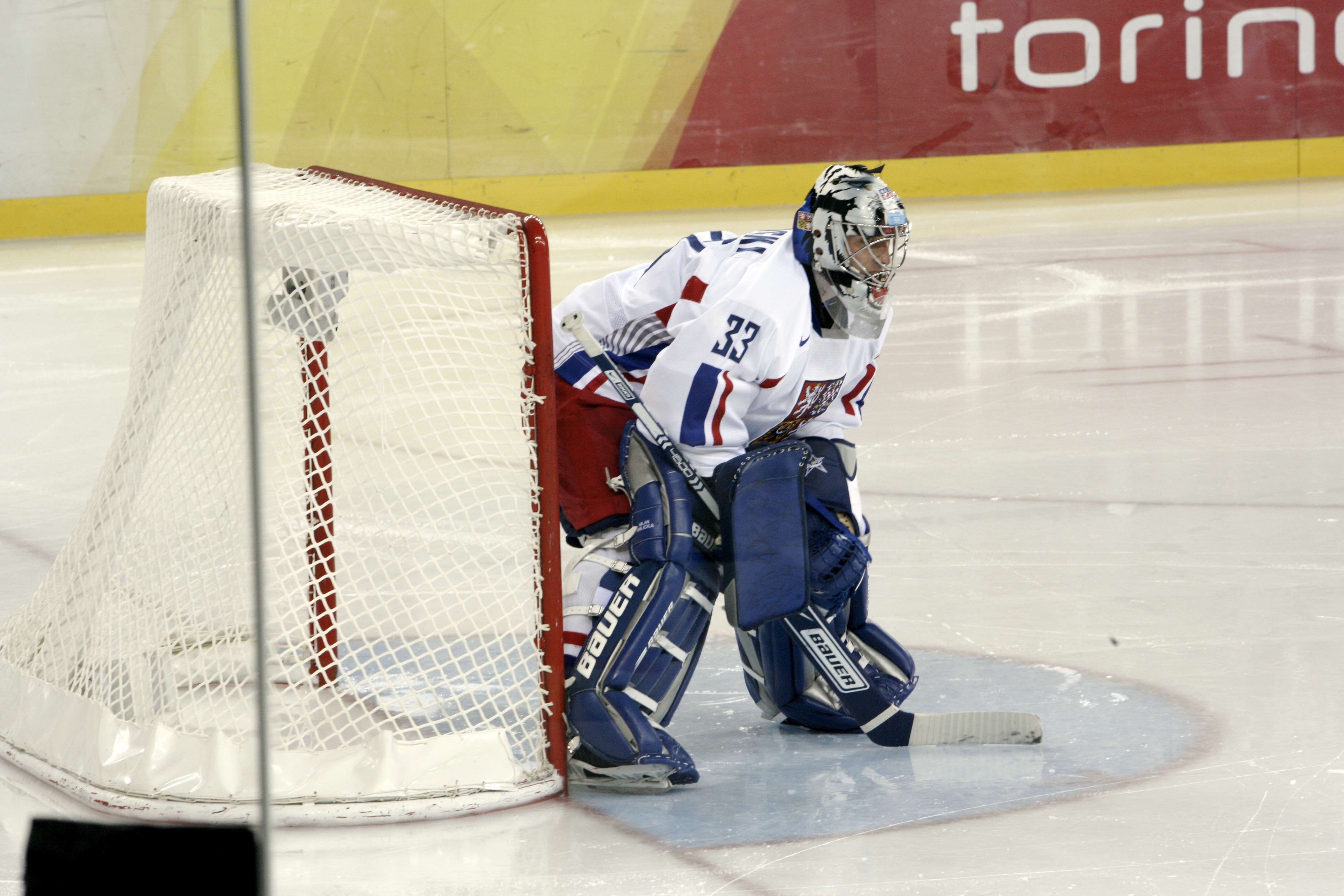 Goalkeeper Milan Hnilička, Winter Olympics 2006.